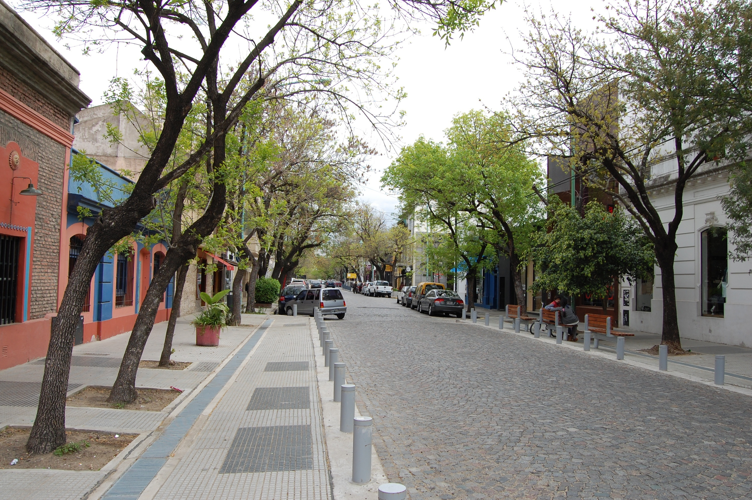 Gurruchaga Street - 1600 block. Palermo Soho section, Buenos Aires.